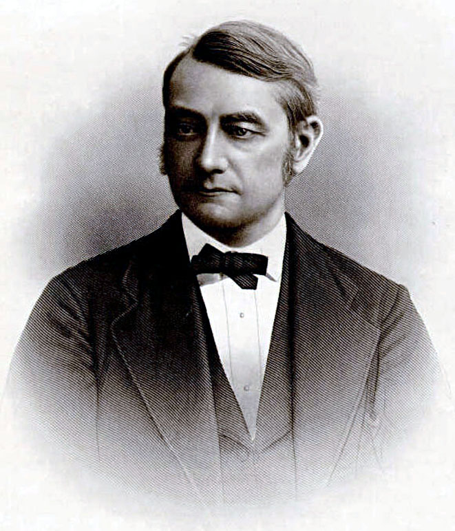 Frederick Halstead Teese, US Representative from New Jersey